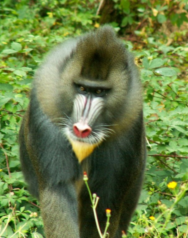 ape